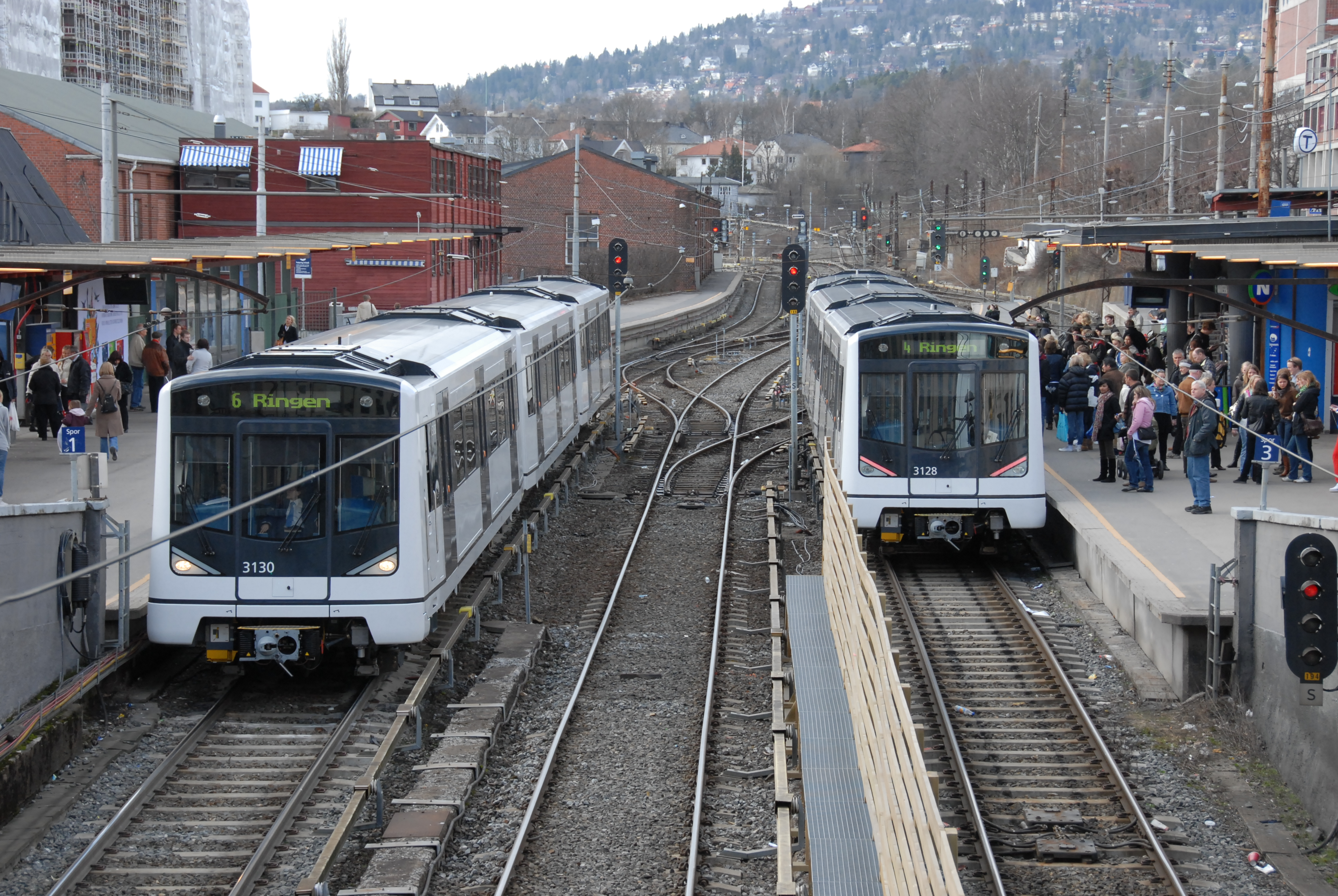 Two MX3000 subway trains at Majorstuen